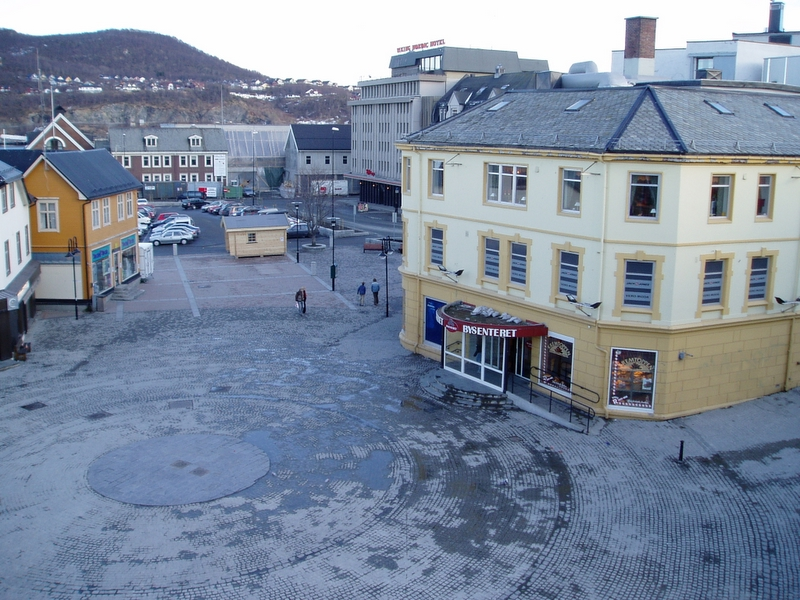 The main square of Harstad, Norway.